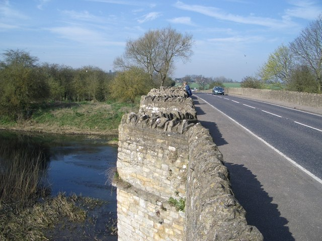 The A428 Road Bridge at Turvey Turvey Bridge carries the A428 Bedford-Northampton road over the River Great Ouse, crossing between the two counties. The Bridge is Grade II listed, together with the two statues visible from this southern parapet that are also shown within this square.